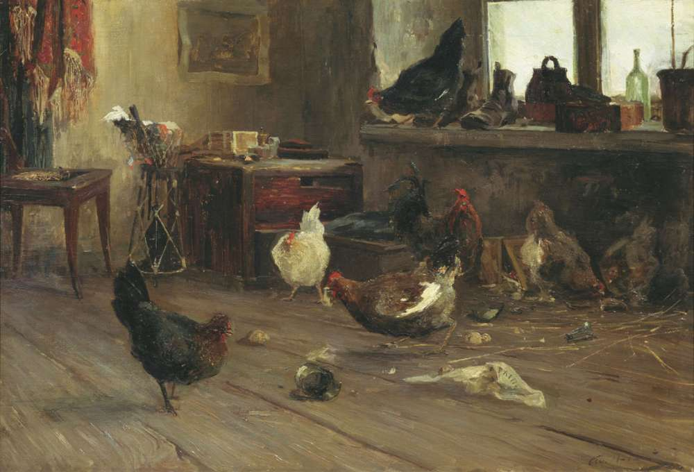 "Kury" (en: Сhickens)